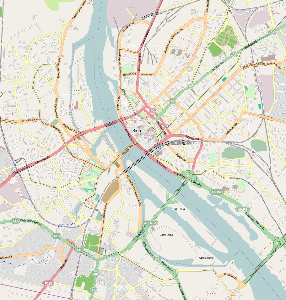 Map of Riga Geographic limits of the map: N:56.9803° S: 56.9089° W: 24.0456° E: 24.1706°